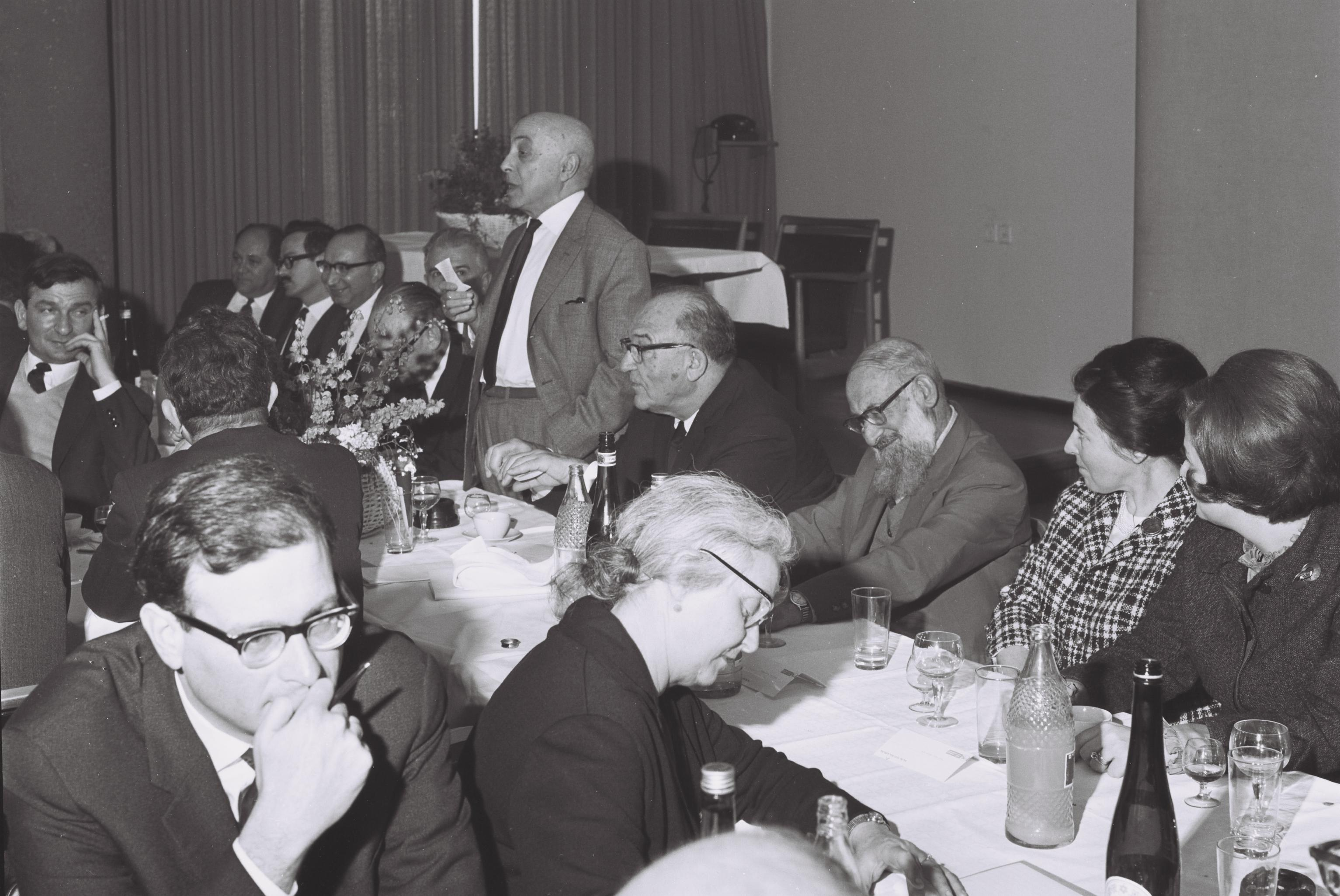 Chairman of the Tel Aviv journalists association, dr. Herzl Rosenblum opening the press conference with p.m. Levy Eshkol after the annual luncheon of the Tel Aviv press.